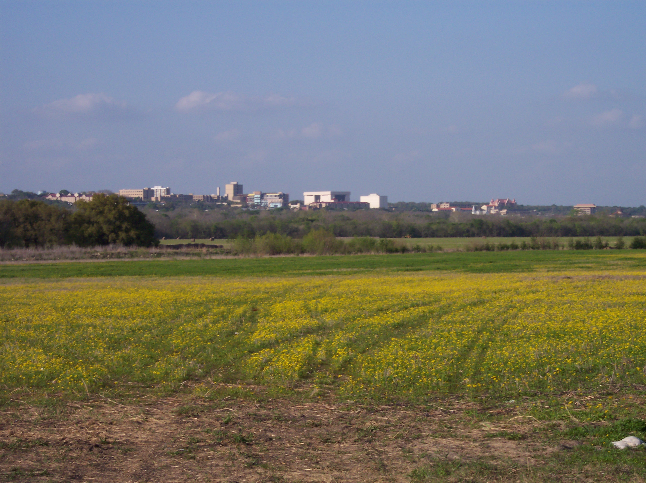 Distant view of Downtown San Marcos, Texas